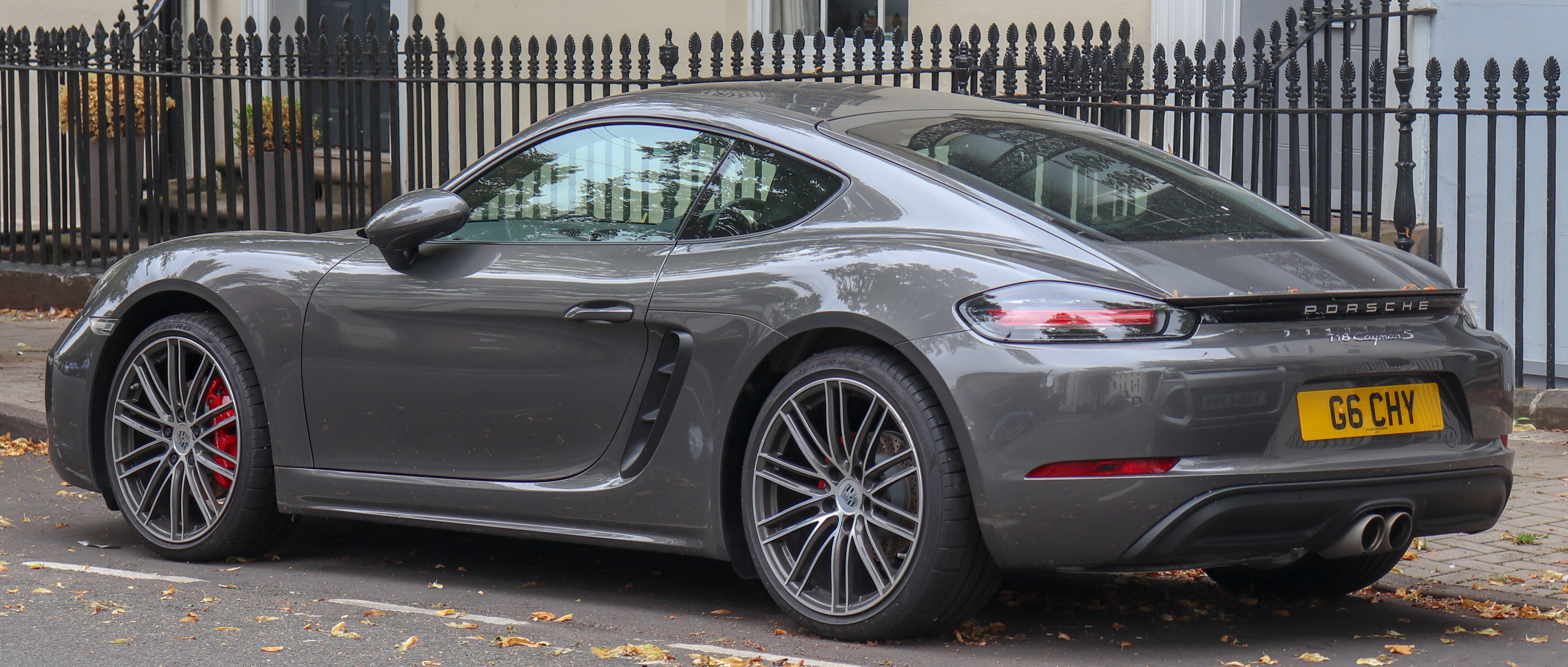 2018 Porsche 718 Cayman S S-A 2.5 Rear